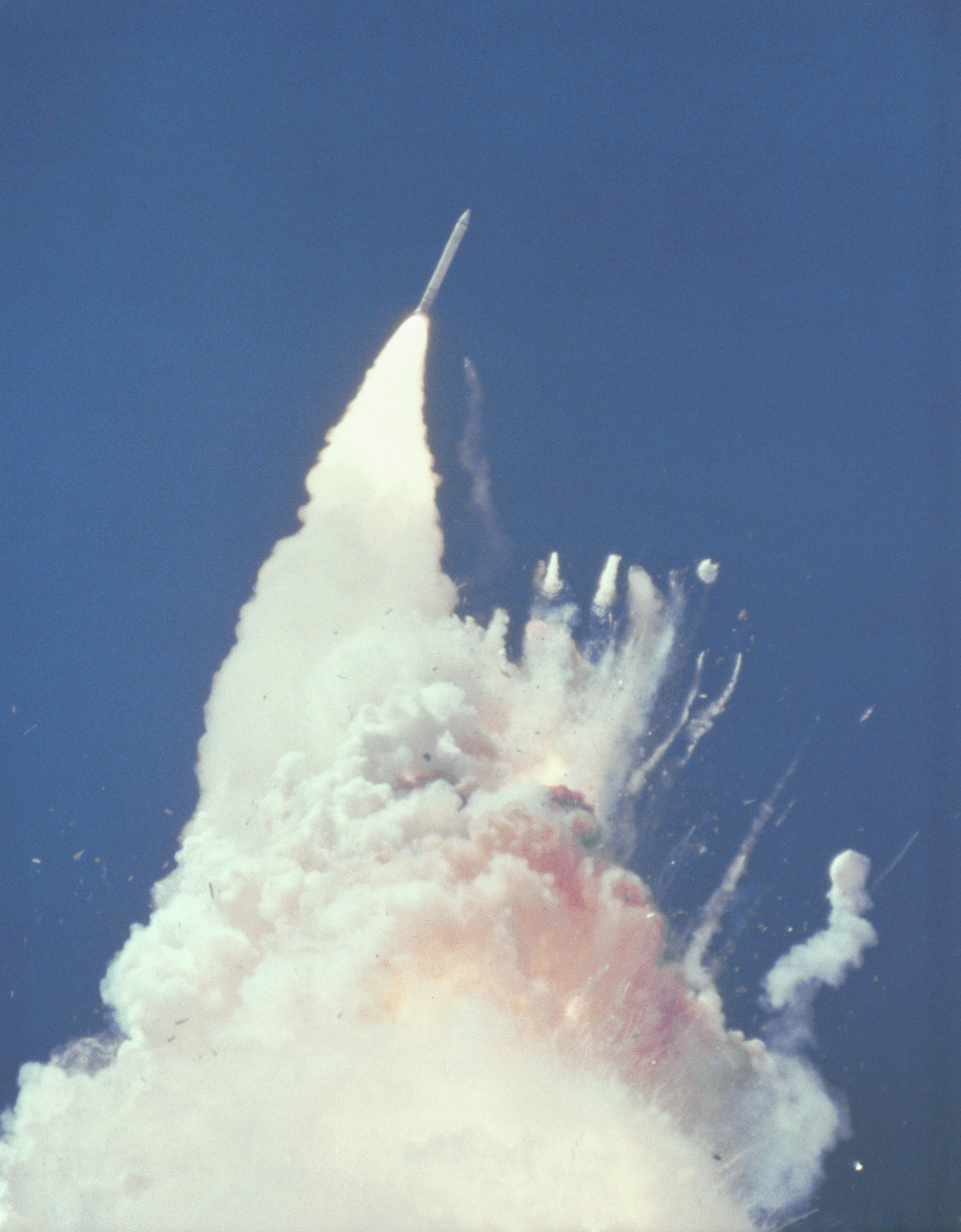 At about 76 seconds, fragments of the Orbiter can be seen tumbling against a background of fire, smoke and vaporized propellants from the External Tank. The left Solid Rocket Booster (SRB) flys rampant, still thrusting. The reddish-brown cloud envelops the disintergrating Orbiter. The color is indicative of the nitrogen tetroxide oxidizer propellant in the Orbiter Reaction Control System. On January 28, 1986 frigid overnight temperatures caused normally pliable rubber O-ring seals and putty that are designed to seal and establish joint integrity between the Solid Rocket Booster (SRB) joint segments, to become hard and non-flexible. At the instant of SRB ignition, tremendous stresses and pressures occur within the SRB casing and especially at the joint attachment points. The failure of the O-rings and putty to "seat" properly at motor ignition, caused hot exhaust gases to blow by the seals and putty. During Challenger's ascent, this hot gas "blow by" ultimately cut a swath completely through the steel booster casing; and like a welder's torch, began cutting into the External Tank (ET). It is believed that the ET was compromised in several locations starting in the aft at the initial point where SRB joint failure occured. The ET hydrogen tank is believed to have been breached first, with continuous rapid incremental failure of both the ET and SRB. The chain reaction of events occurring in milliseconds culminated in a massive explosion. The orbiter Challenger was instantly ejected by the blast and went askew into the supersonic air flow. These aerodynamic forces caused structural shattering and complete destruction of the orbiter. Though it was concluded that the G-forces experienced during orbiter ejection and break-up were survivable, impact with the ocean surface was not. Tragically, all seven crewmembers perished.